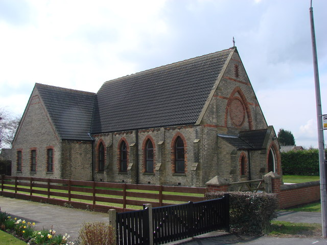 Methodist Church, Gilberdyke in the East Riding of Yorkshire, England.